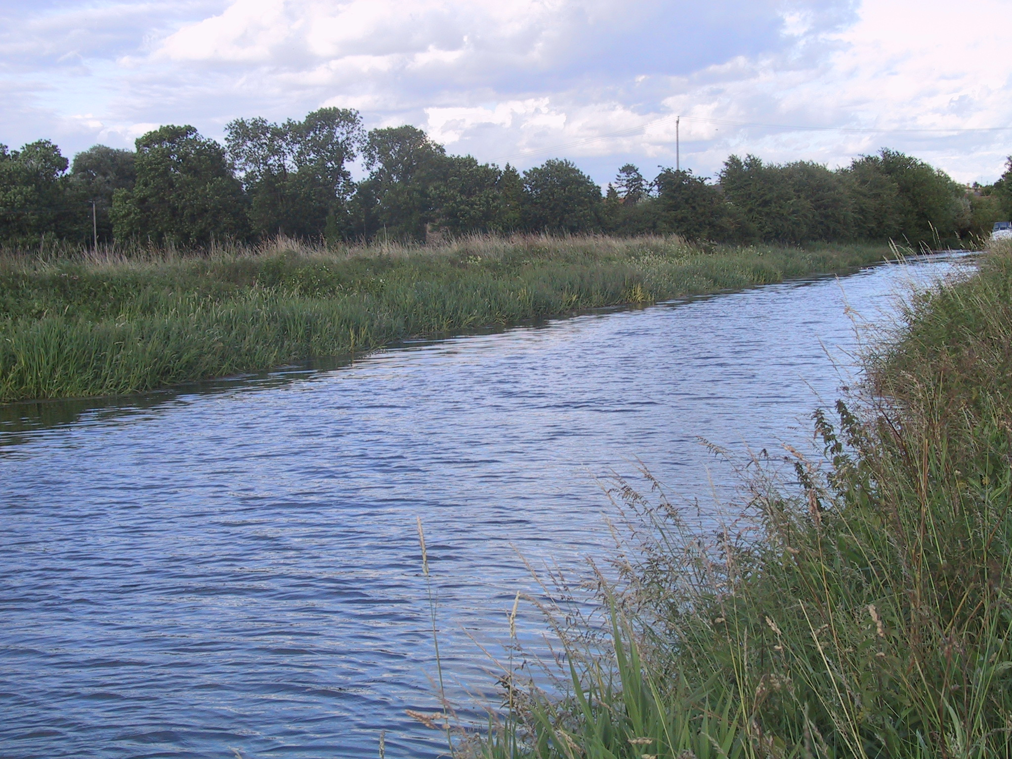 Burwell Lode Close to its 'T'-junction with The Weirs.